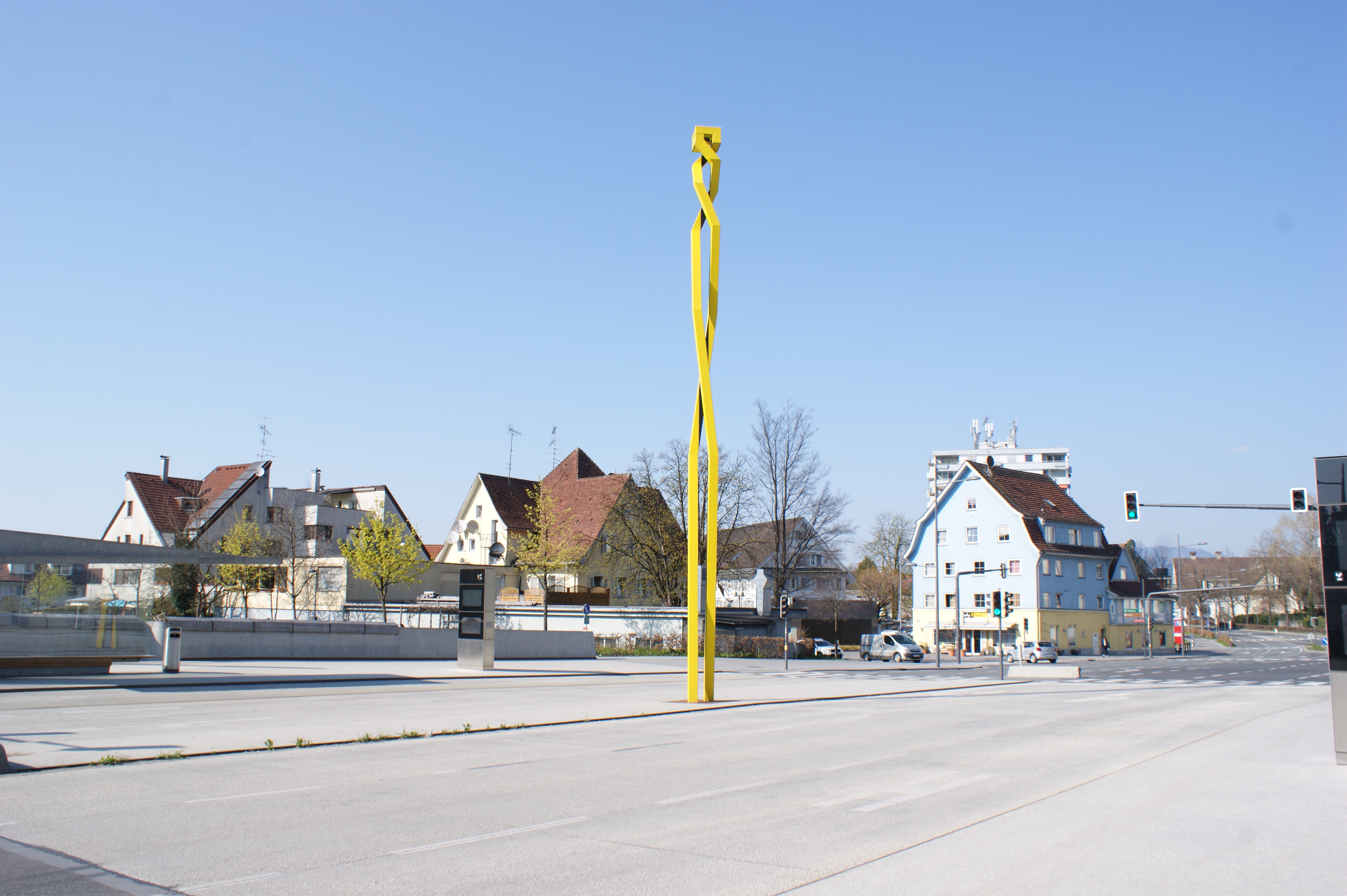 Saegerbruecke in Dornbirn, Vorarlberg, Austria. The bridge was completely rebuilt in 2016. The yellow, 13-meter-high bridge sculpture was assembled on May 2, 2016. It is called “Do.Helix” and created by the Vorarlberg artist and sculptor Hubert Lampert. In the background of the sculpture you can see the restaurant "Saegerhof".